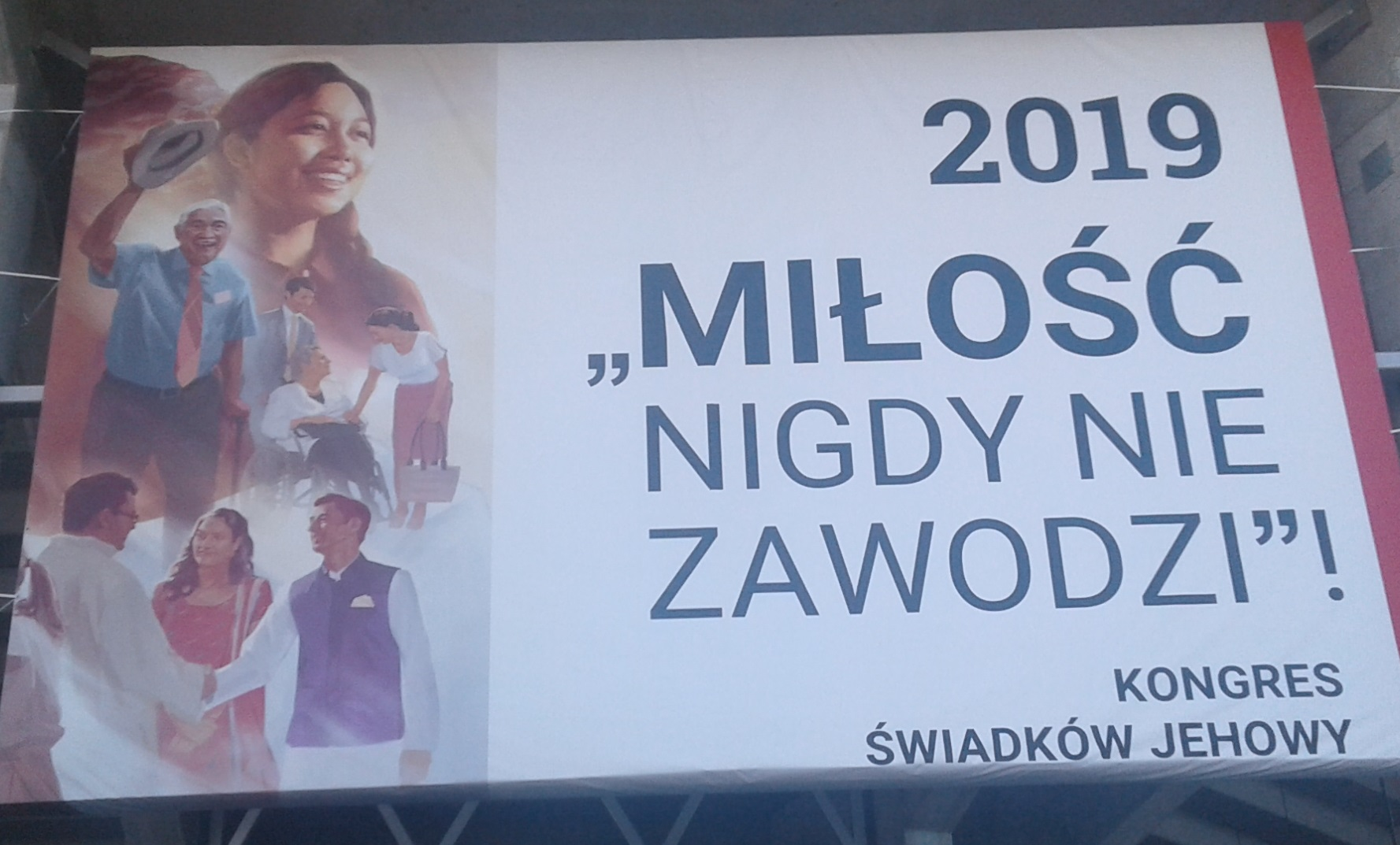 Conventions_of_Jehovah's Witnesses, Warsaw, Poland, 2019